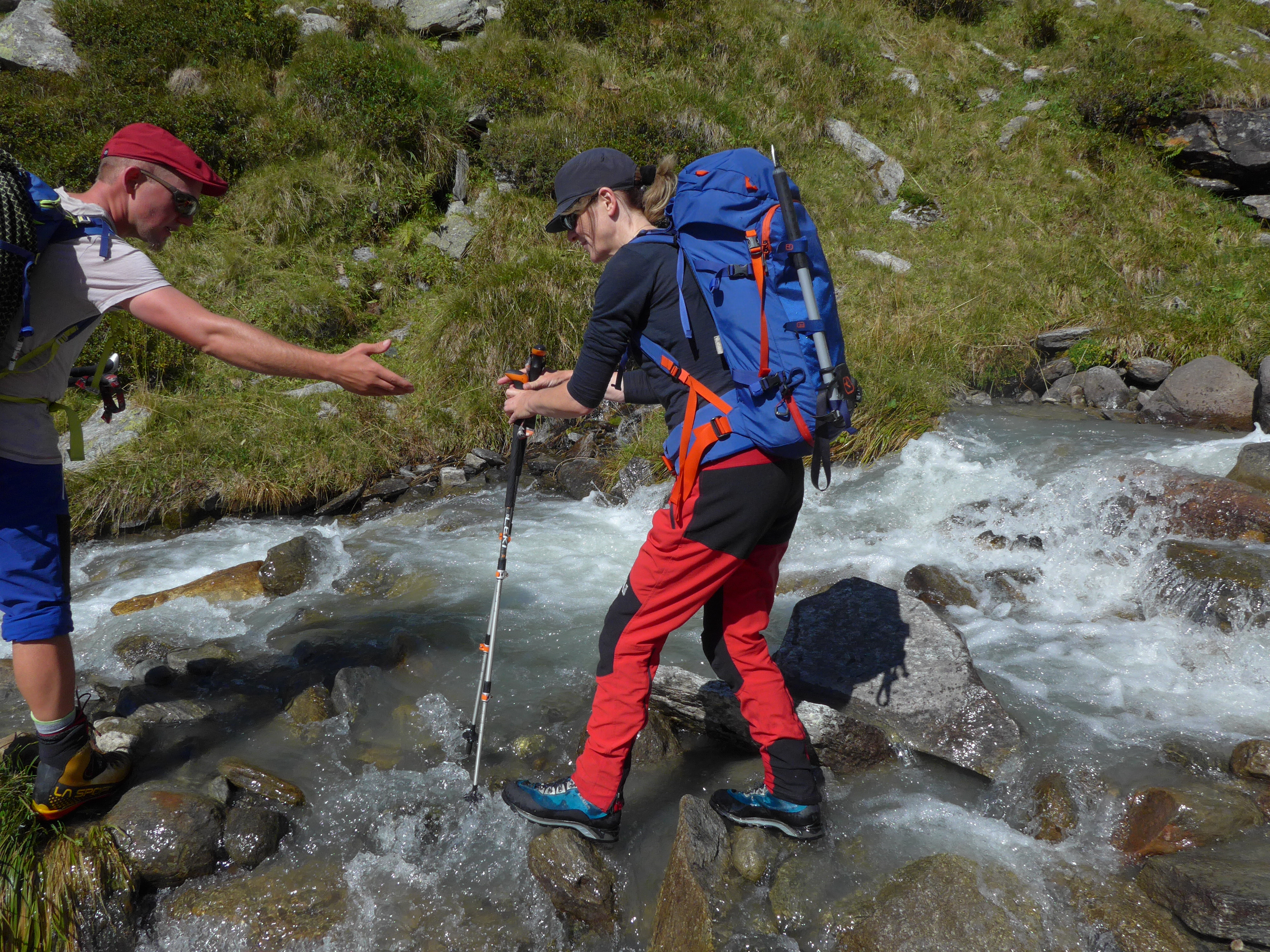 Crossing of Lahner Bach, Ahrntal